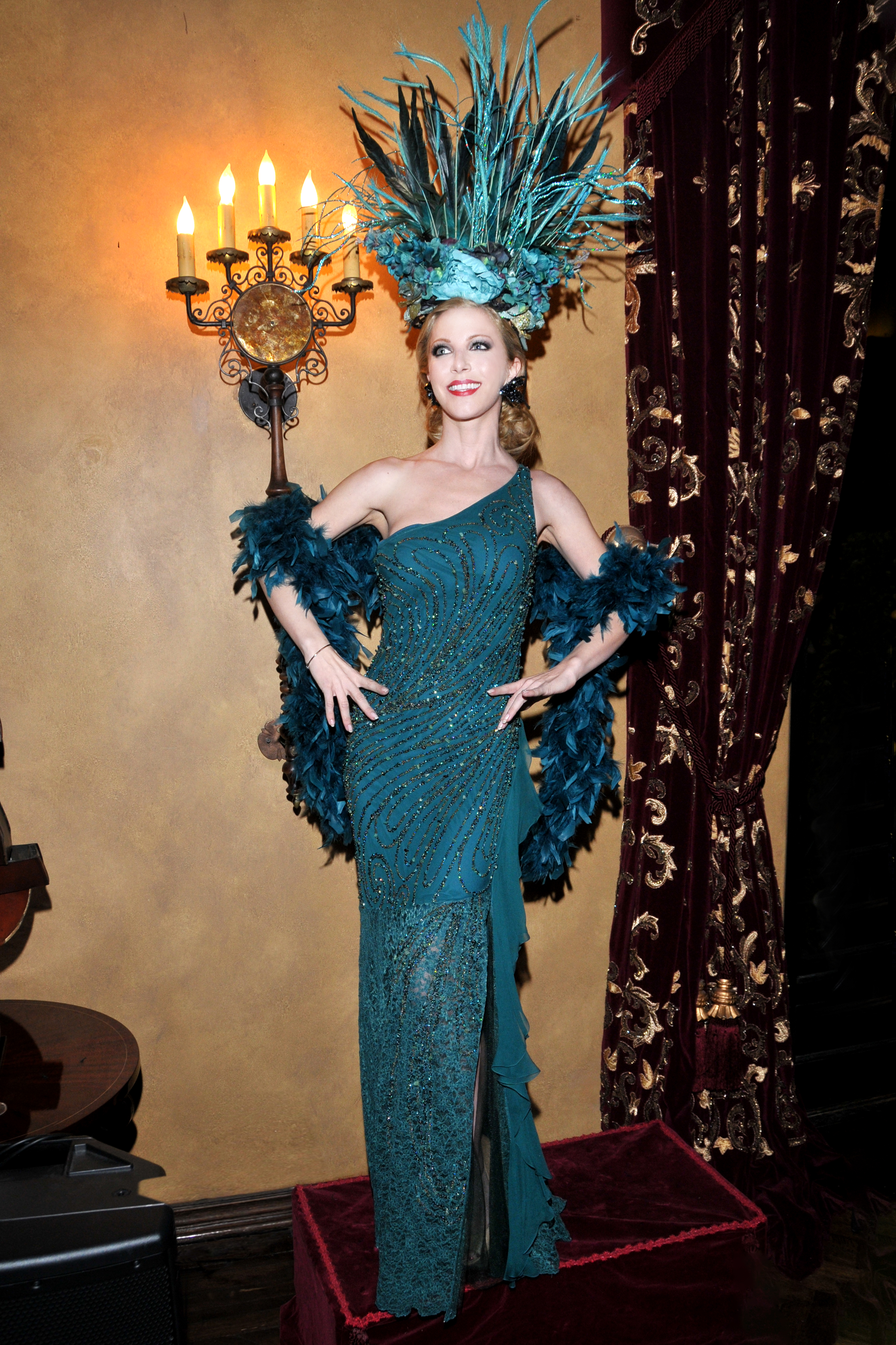 Podium Model modeling a dress by designer Sue Wong in Hollywood, California - Photo by Glenn Francis of